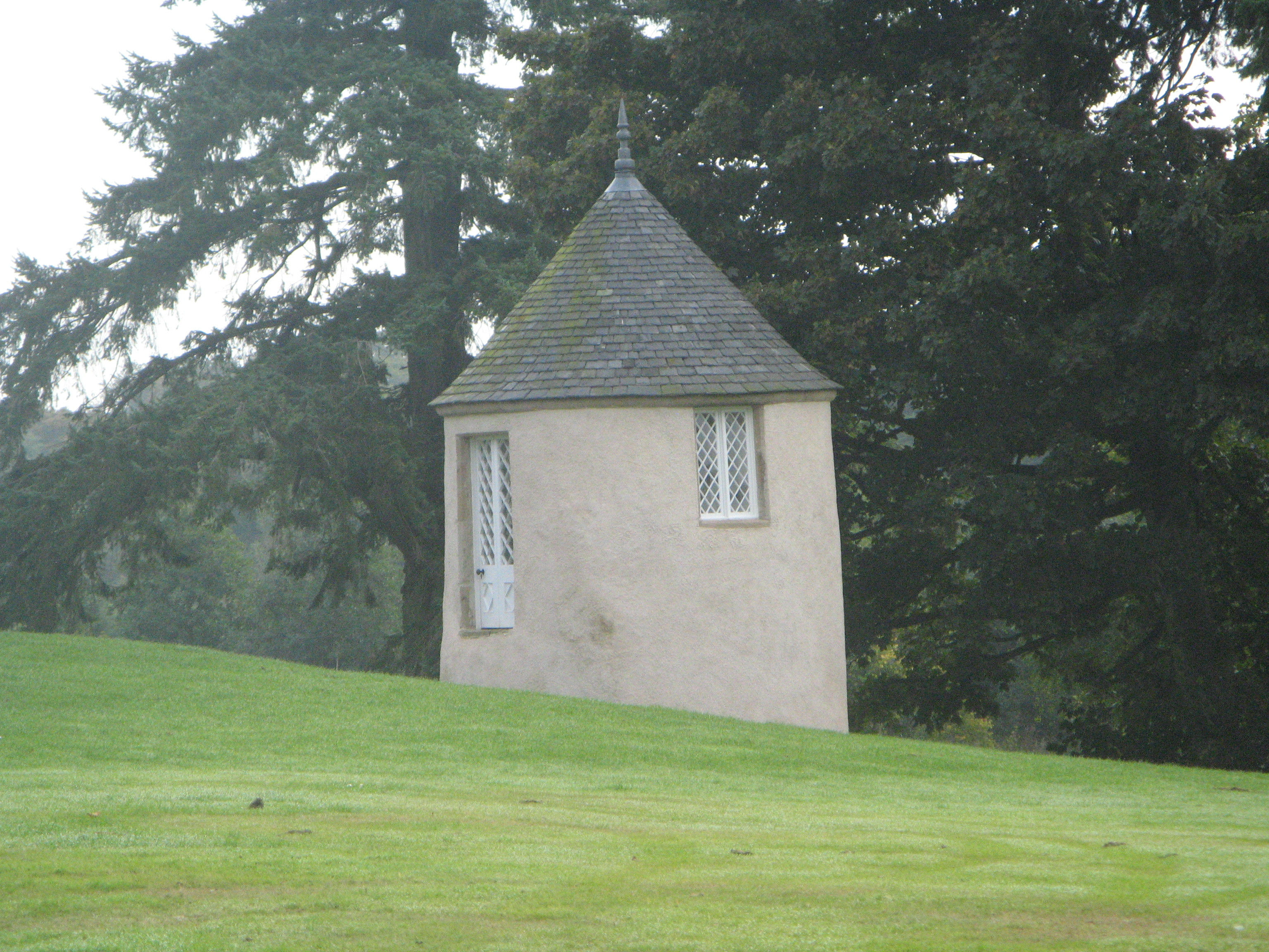 Meldrum House, Oldmeldrum, structure on golf course